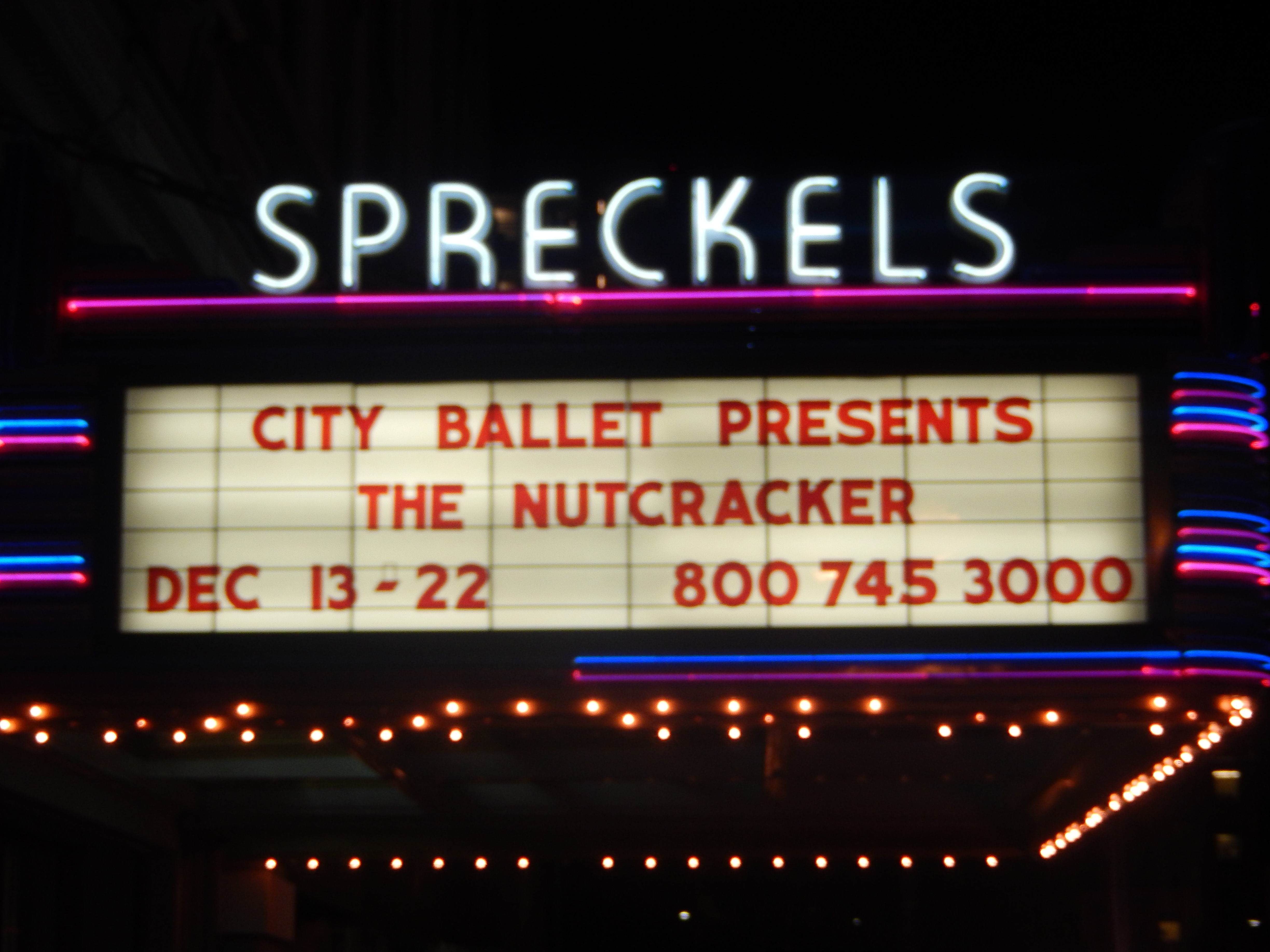 I took photo with Nikon camera of Spreckels Theatre sign in downwton San Diego, CA.